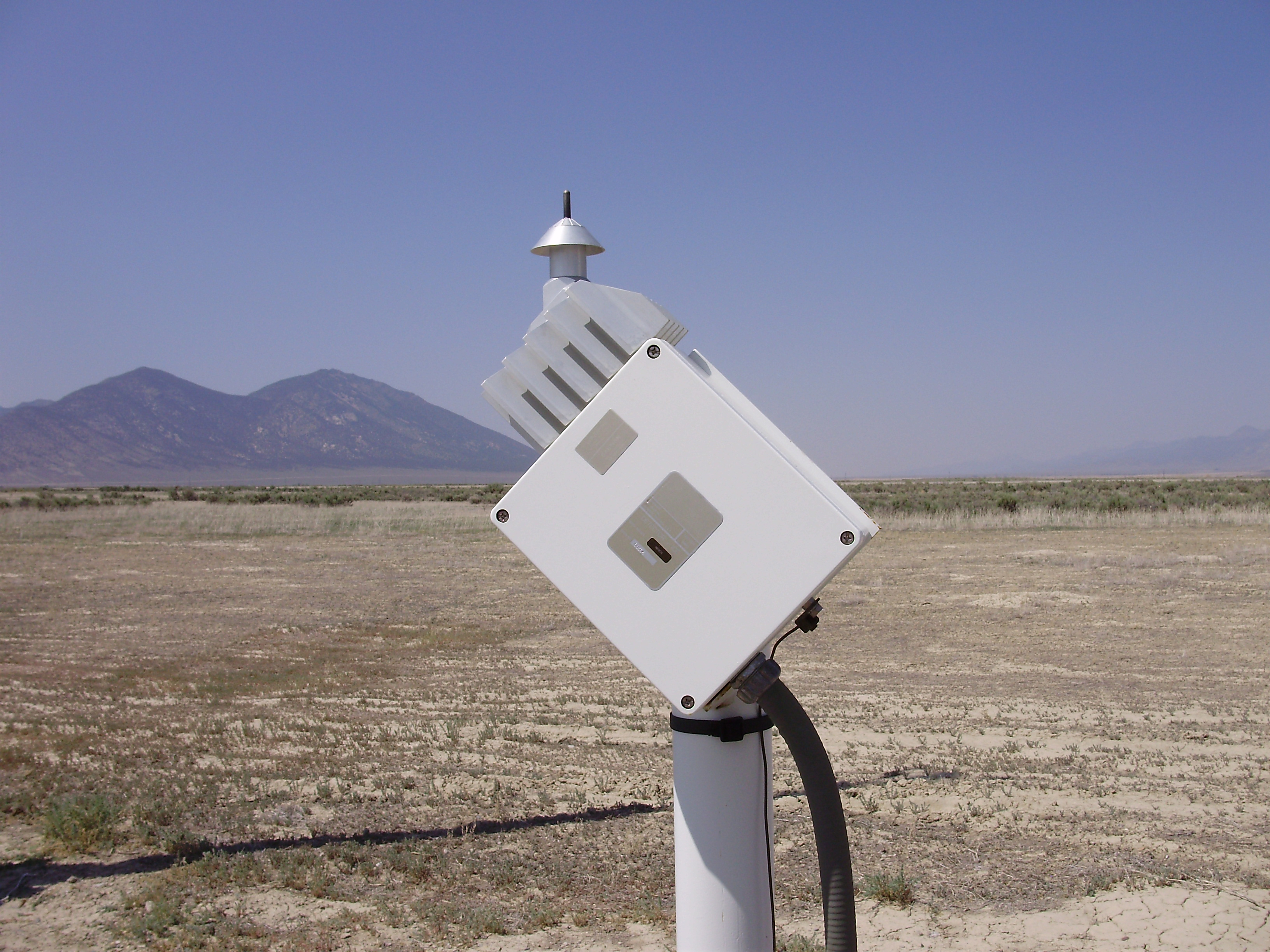 Ely Airport ASOS Freezing Rain Sensor